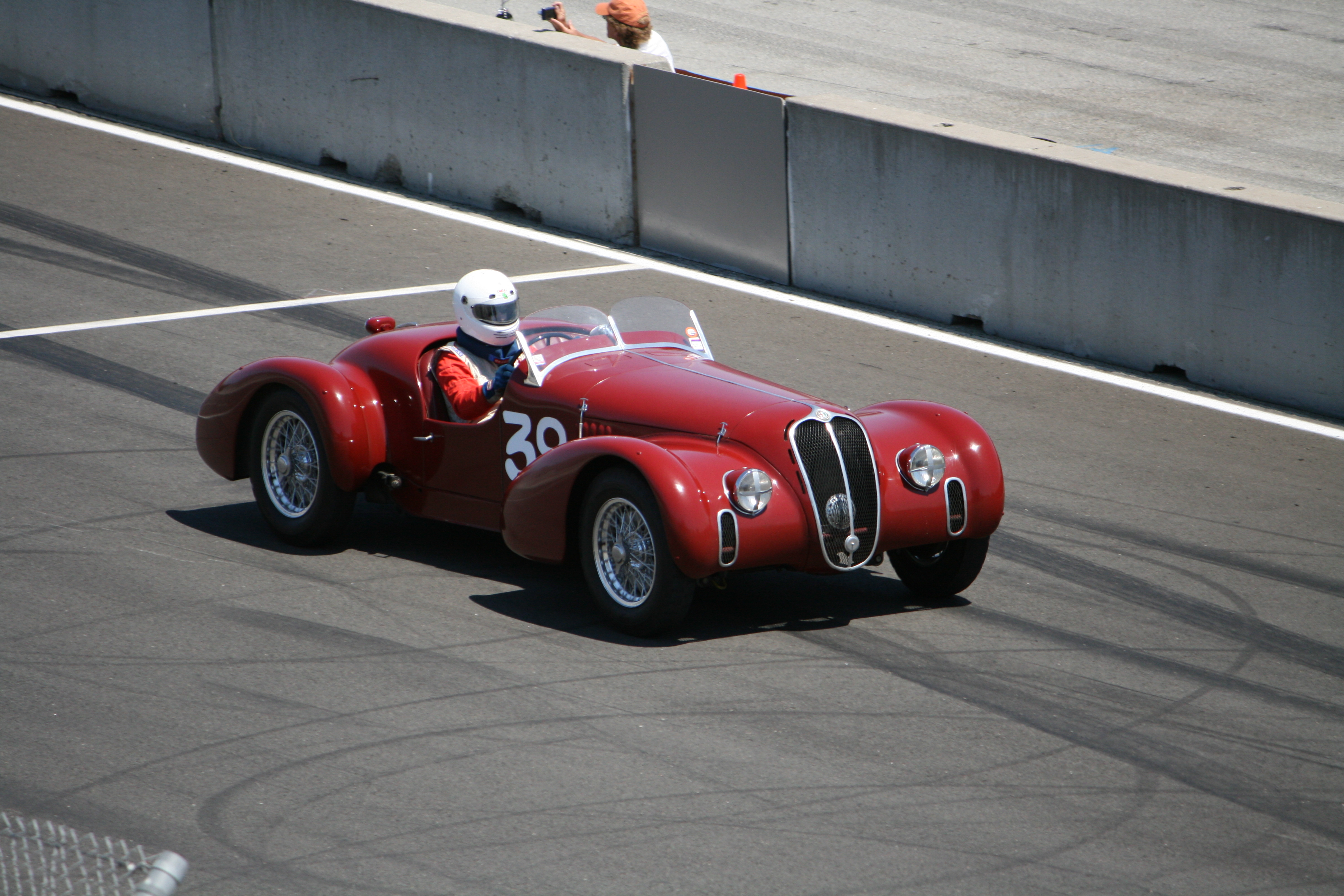 1939 Alfa Romeo 6C-2500SS Corsa at Monterey Historic 2008